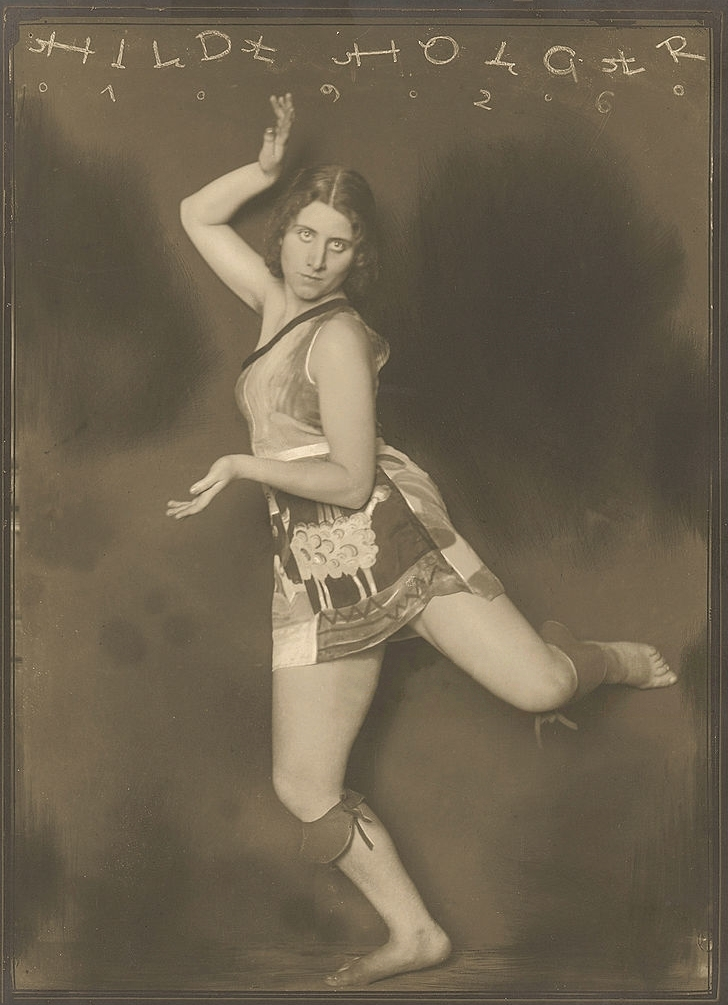 Hilde Holger photographed by Anton Josef Trcka. Around 1926.